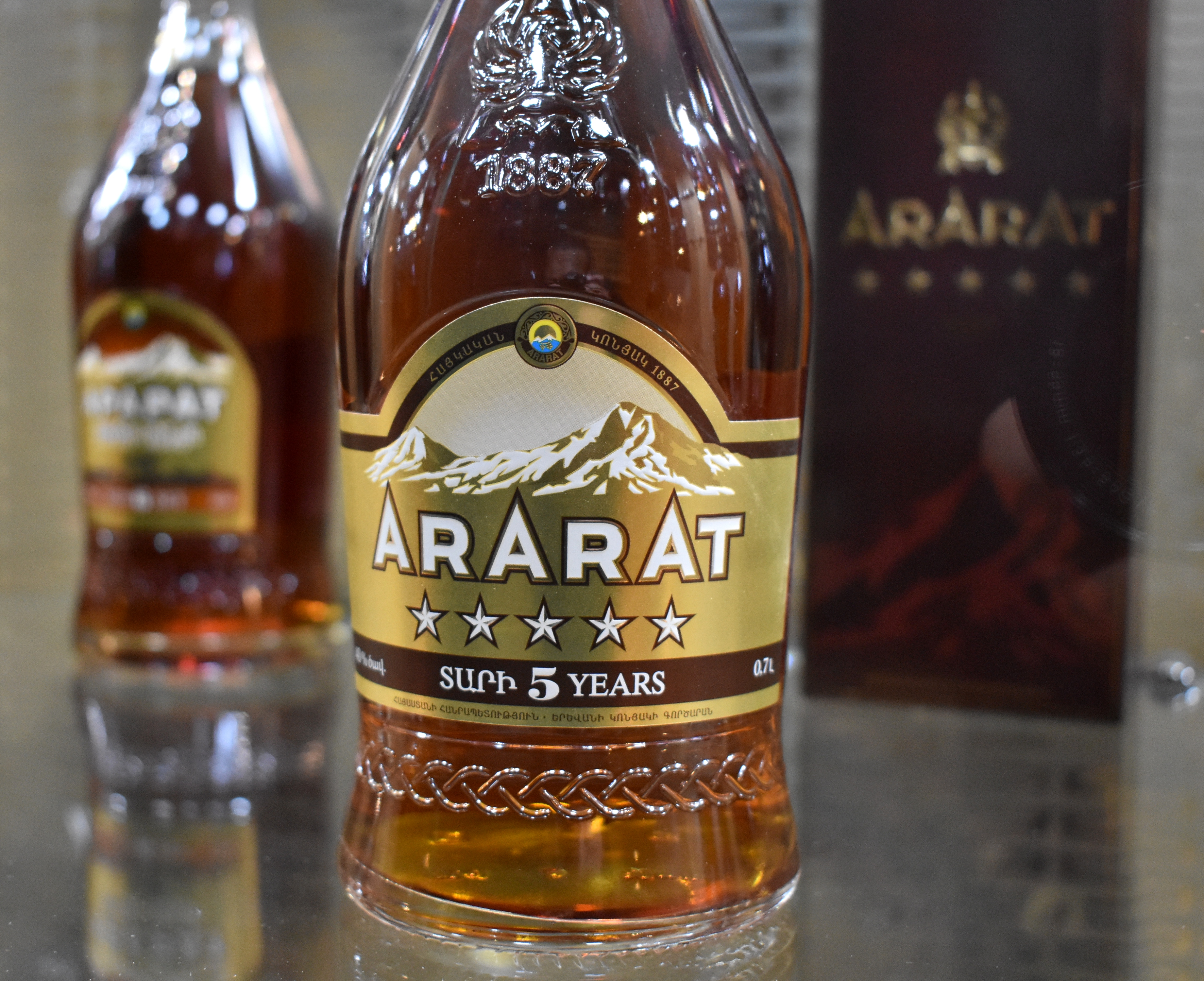 Ararat (brandy) at the museum of the Yerevan Brandy Company